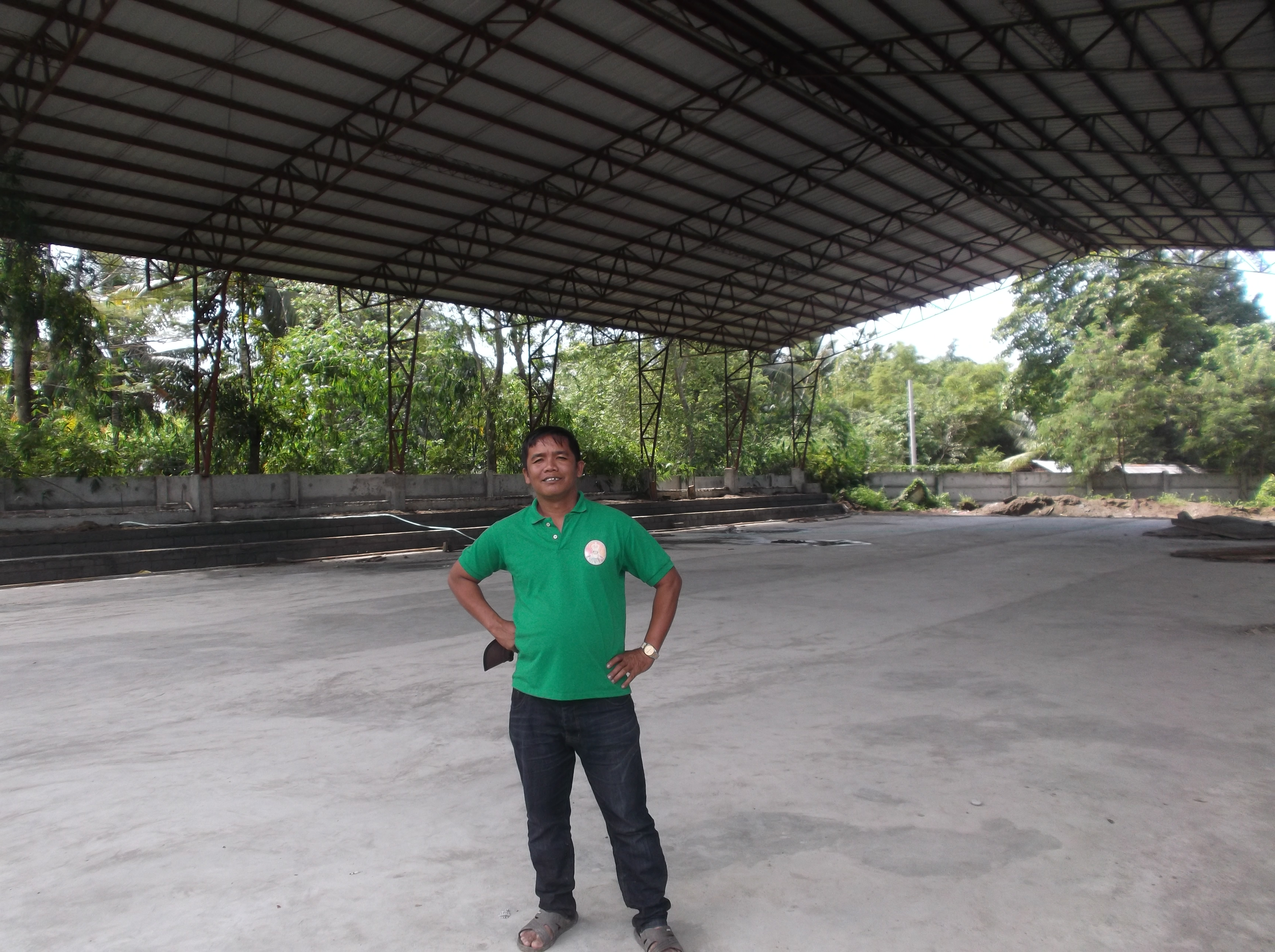 Mr. Arnold Sope was known as Chairman. He ran as Barangay Councilor but failed to win in 2014.